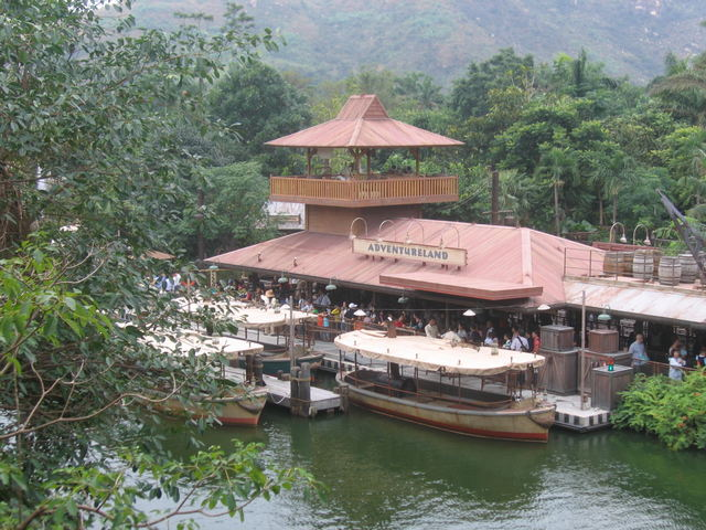 Jungle River Cruise of HK Disneyland